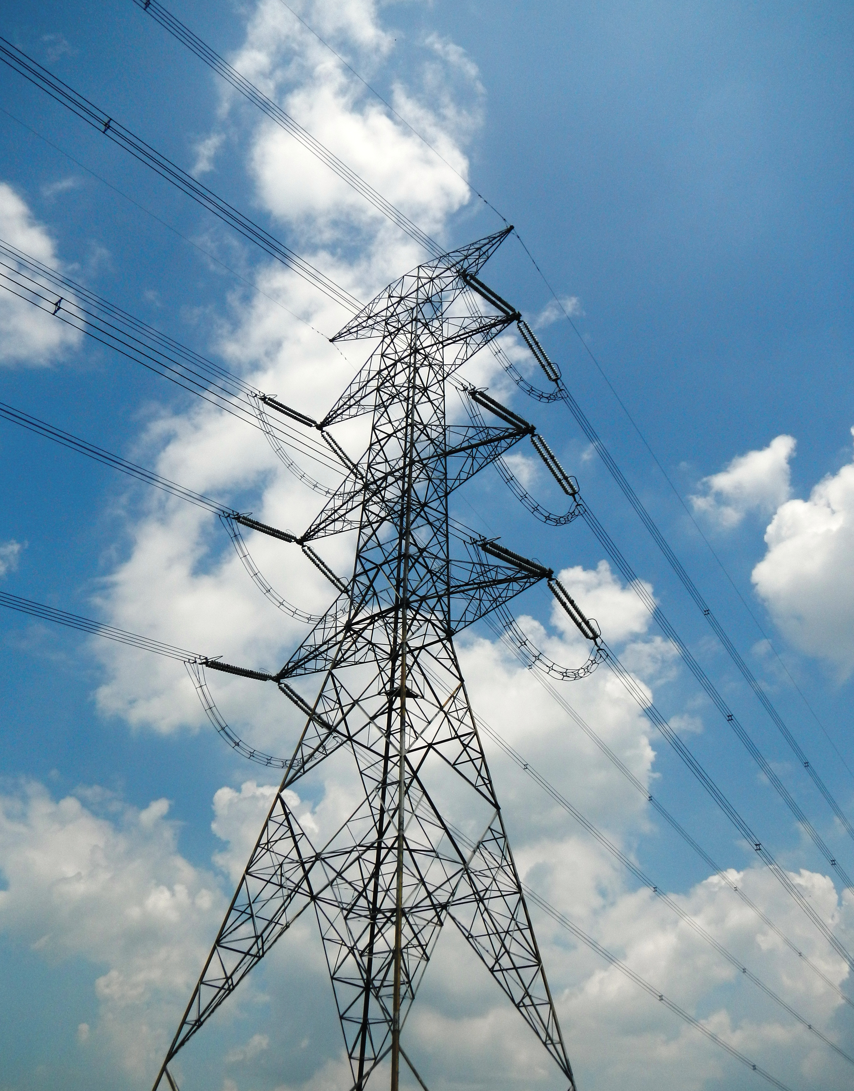 Landscape, scenery, greens, paddy fields of rice plantation Zebra dove Geopelia striata along Sapang Alat Bridge K00 65+648 10 Tons limit, over the Creek draining to Angat River, which connects Barangay San Roque, Angat, Bulacan to the Welcome arch of Barangay Marungko, Angat, Bulacan beside the giant towers of Transmission lines in the Philippines that electrified the entire Angat-Norzagaray area of Bulacan, along the Baliuag-Angat-DRT Provincial Road; note - all these photos are within the location of both Barangays Marungko and San Roque, Angat, Bulacan - Angat, Bulacan Barangay Sabang, San Roque, Angat, Bulacan connected by the Angat - DRT Bridge over the Angat River towards Barangay Santa Lucia, Angat, Bulacan and Barangay Binagbag, Angat, Bulacan along the Angat-DRT Provincial Road.